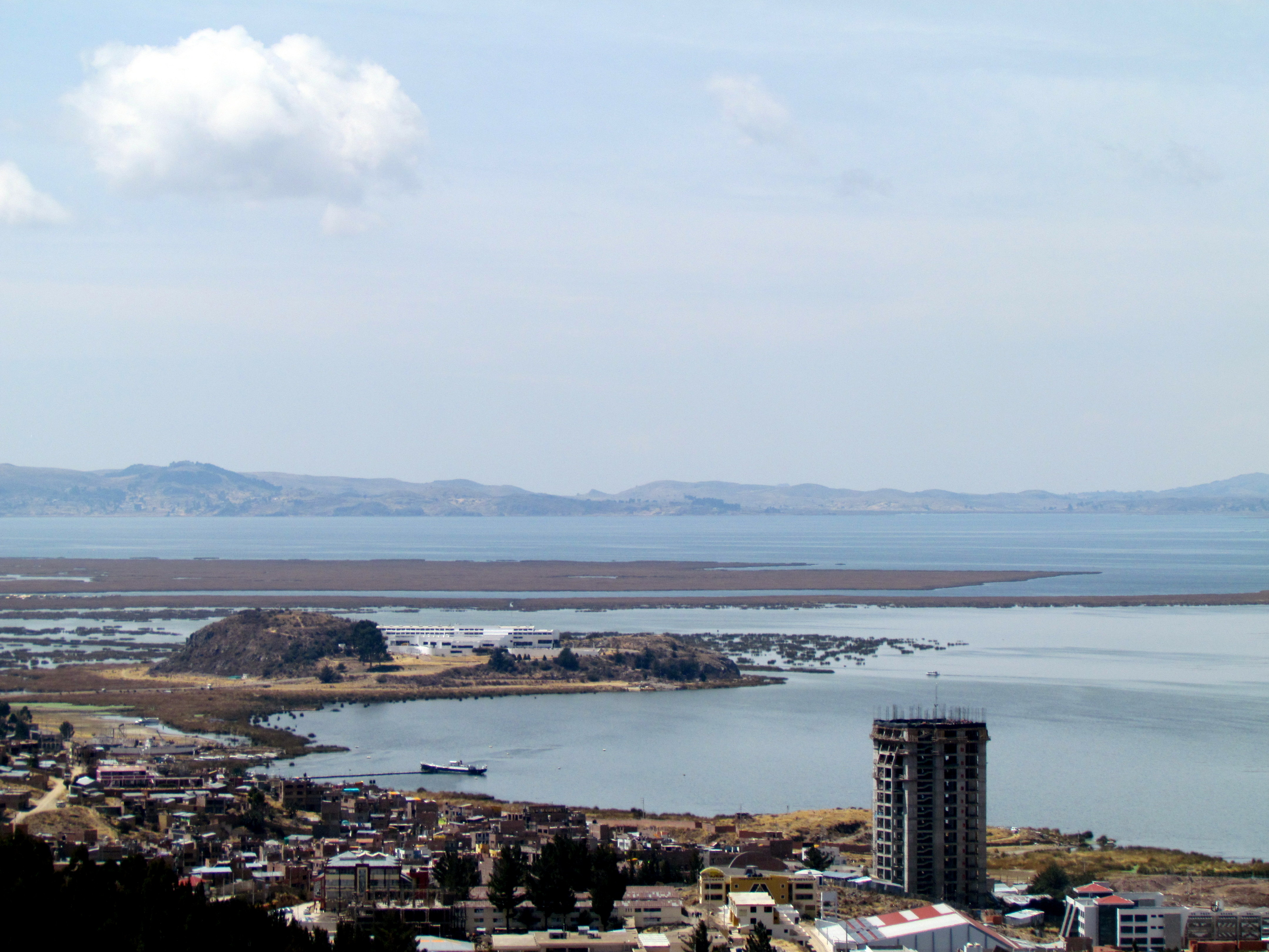 091 Puno on the Lake Puno Peru 3361